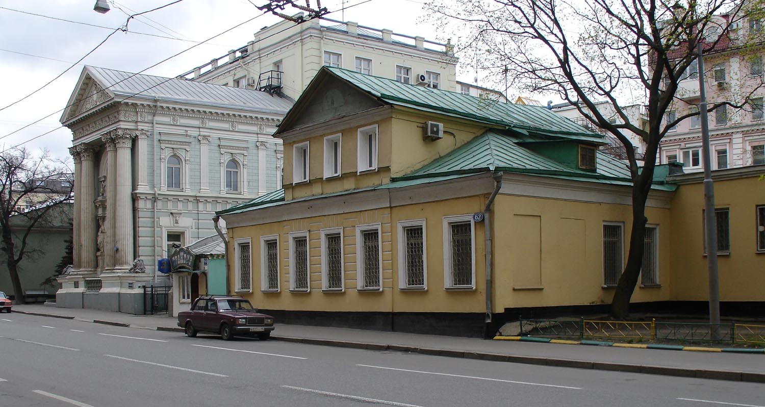 Moscow, Pyatnitskaya Street, NN. 62, 64